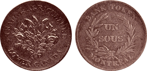 Both sides of the first "bouquet sou" token, issued in 1835. This was the initial version of its type, erroneously spelled with the plural form of "sou" (sous).